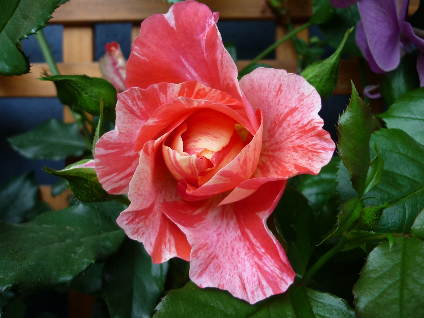 modern rose "Edgar Degas"